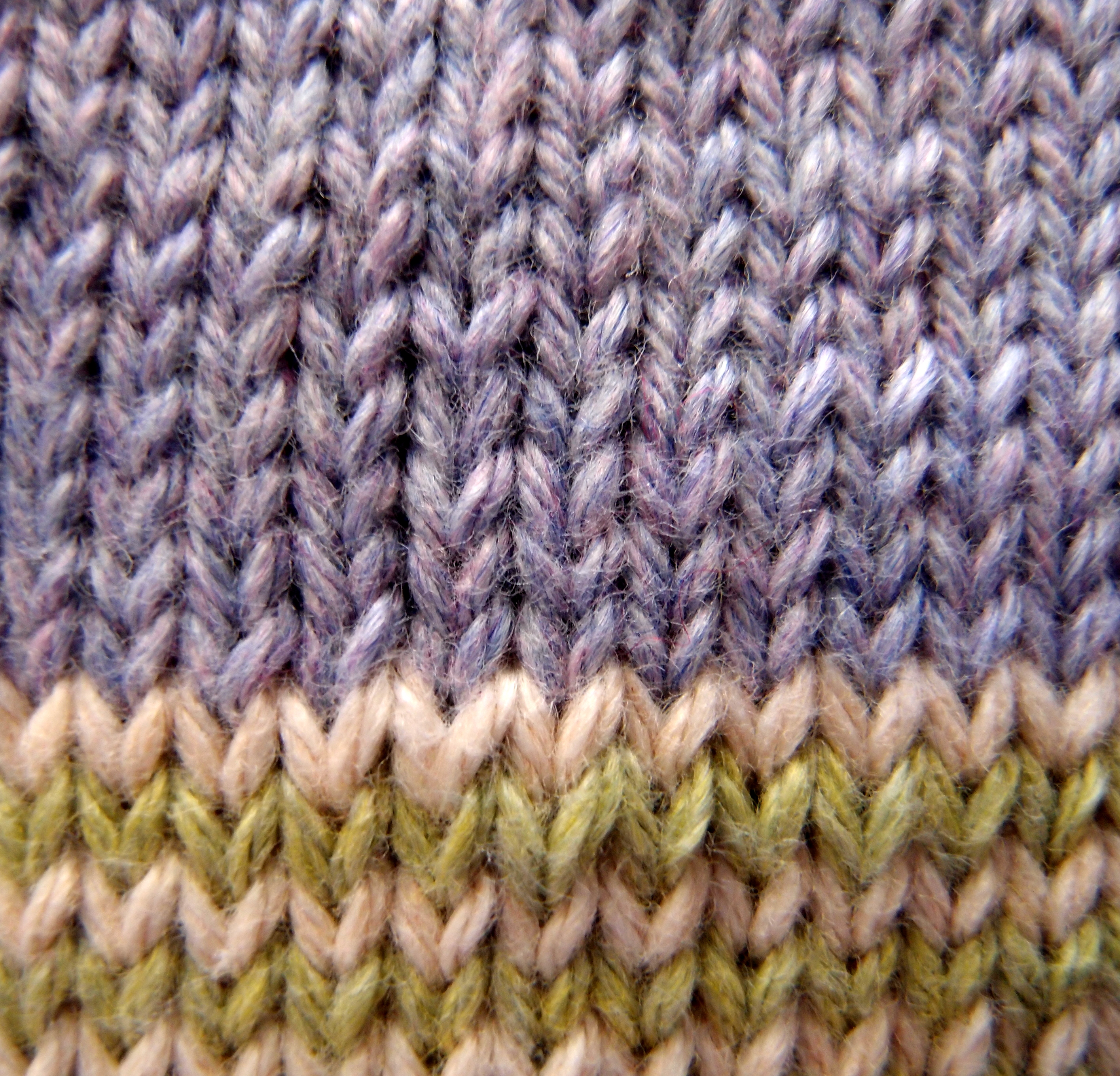 Hand-knitted stockinette fabric, front. Total width of pictured stitches = 2 inches